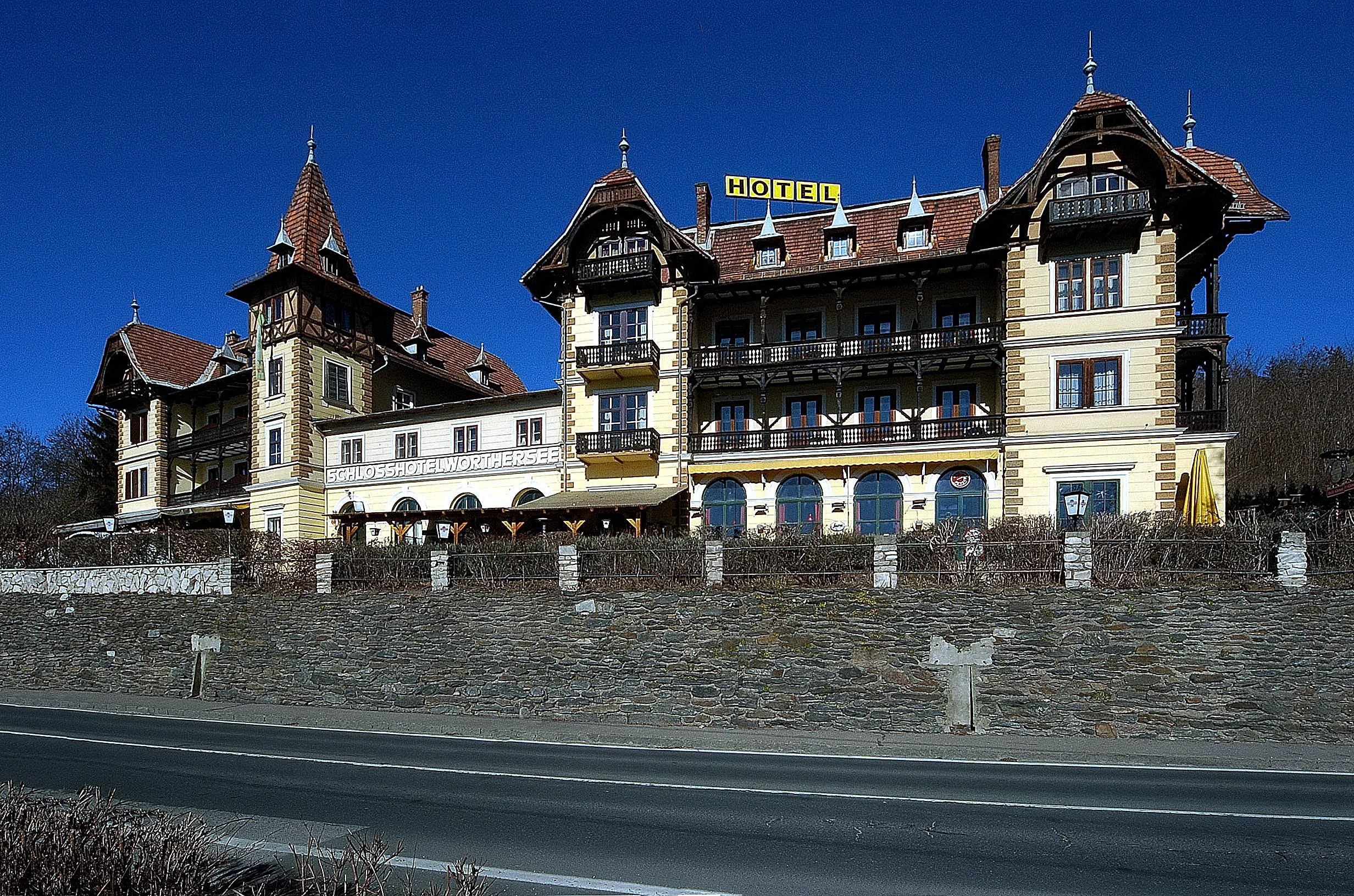 Hotel Woerthersee on Villacher Strasse #338, 12th district "Sankt Martin" of Klagenfurt on the Lake Woerth, Carinthia, Austria, EU